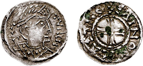 France, Provincial. Chinon-Tours. Struck after 954 AD. AR Denier (1.48 gm, 9h). TVRON, crude diademed and draped bust right +CAINONI CASTRO, short voided cross. Poey d'Avant 1669; Roberts 5051; Depeyrot 322. The first coins from Chinon, deniers with the name and portrait of Louis IV d'Outremer (936-954 AD; Depeyrot 318), were replaced by anonymous portrait issues on the standard of the Tours deniers, the trade coin of medieval France. This coin was the prototype for a long series of increasingly degenerate portrait coins that were struck in numerous locations through the 13th century.